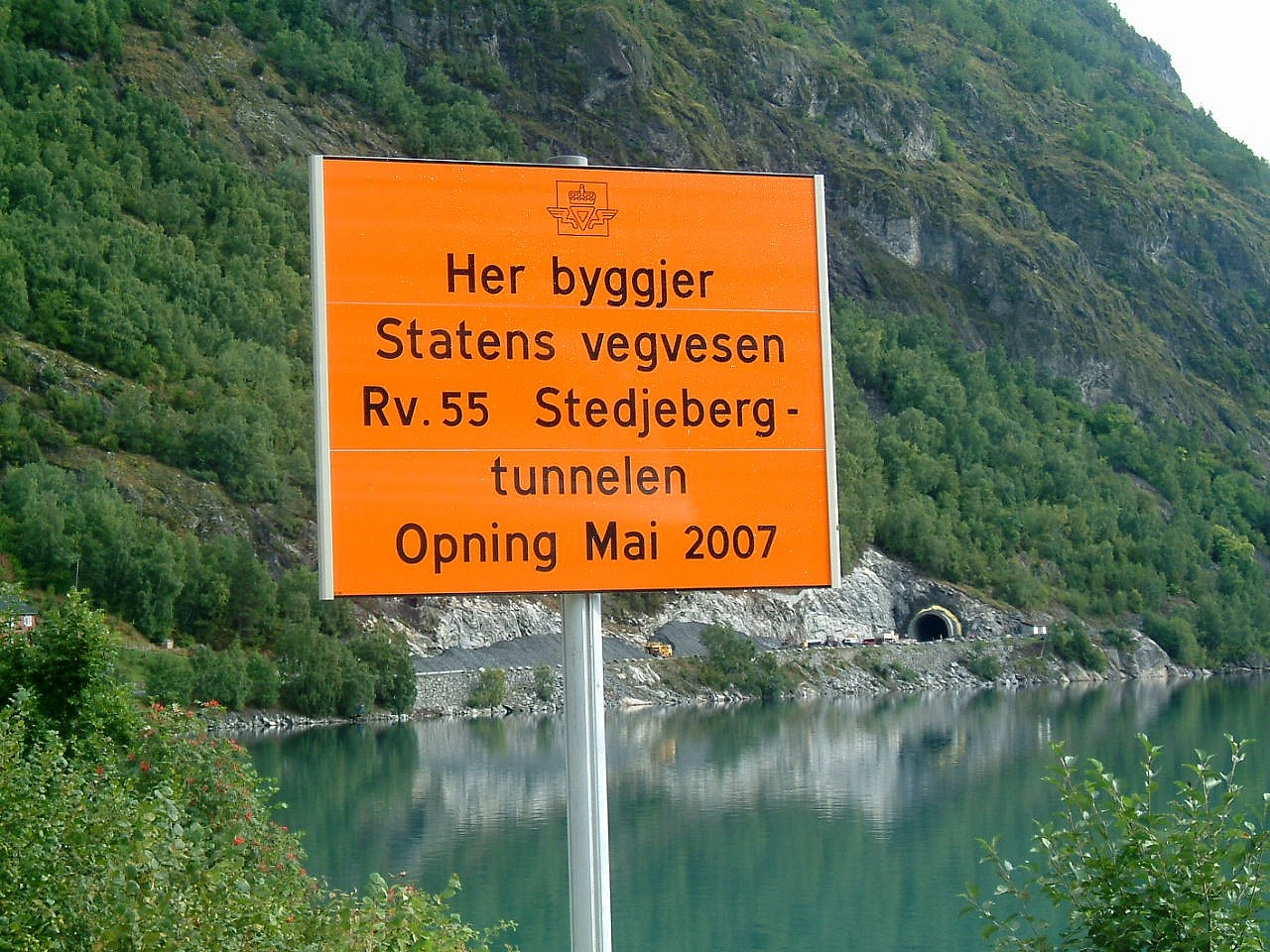 The Stedjebergtunel is located ca 1 km outside Sogndal centrum on road Rv55 in direction Leikanger.